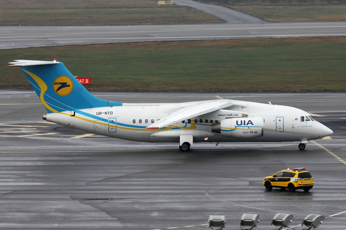 Ukraine International Airlines Antonov An-148-100B